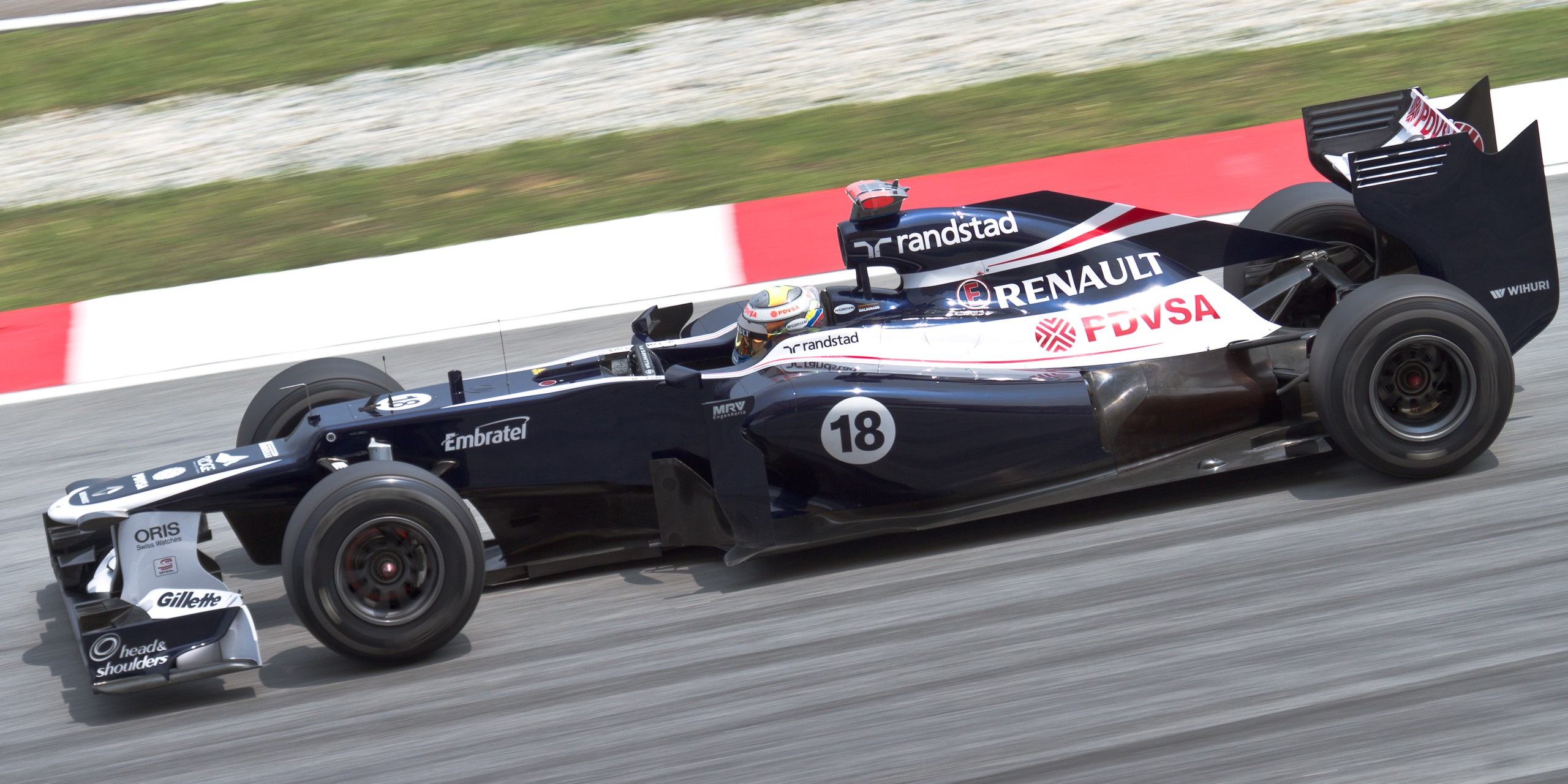 Formula One 2012 Rd.2 Malaysian GP: Pastor Maldonado (Williams) during the second practice session on Friday.